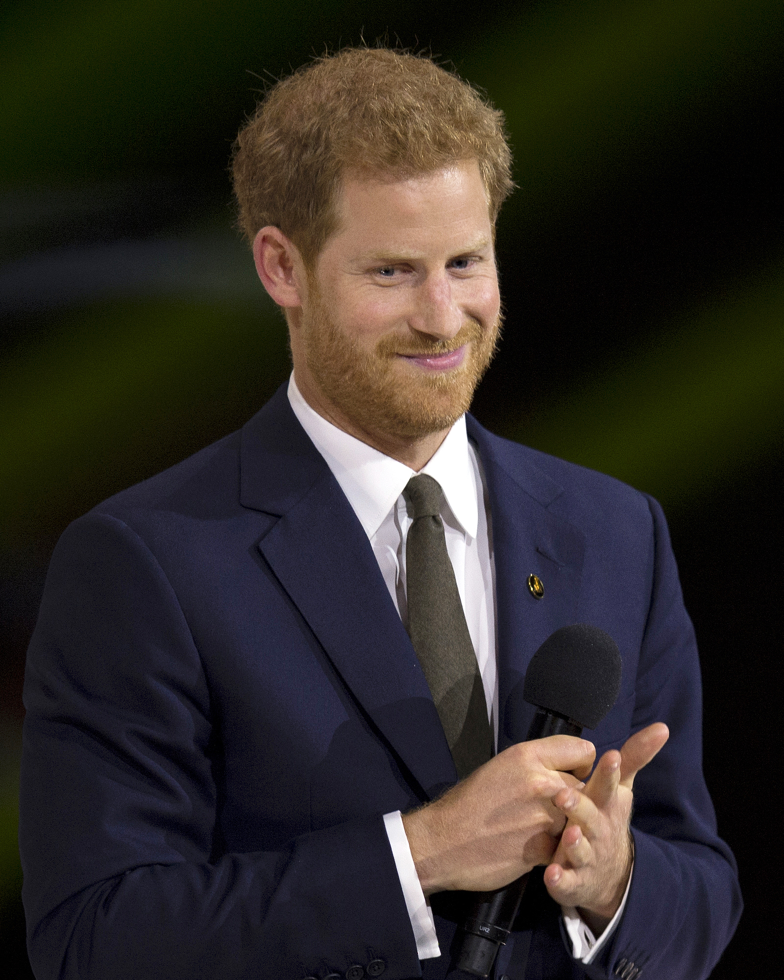 Prince Harry